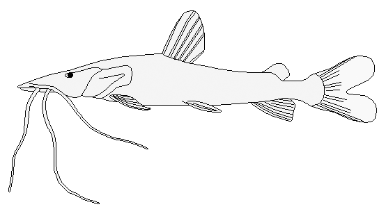 Drawing of Pseudoplatystoma fasciatum. Based on and image by Robbie Cada, FishBase artist, in the public domain. Trimmed and converted to PNG by myself.